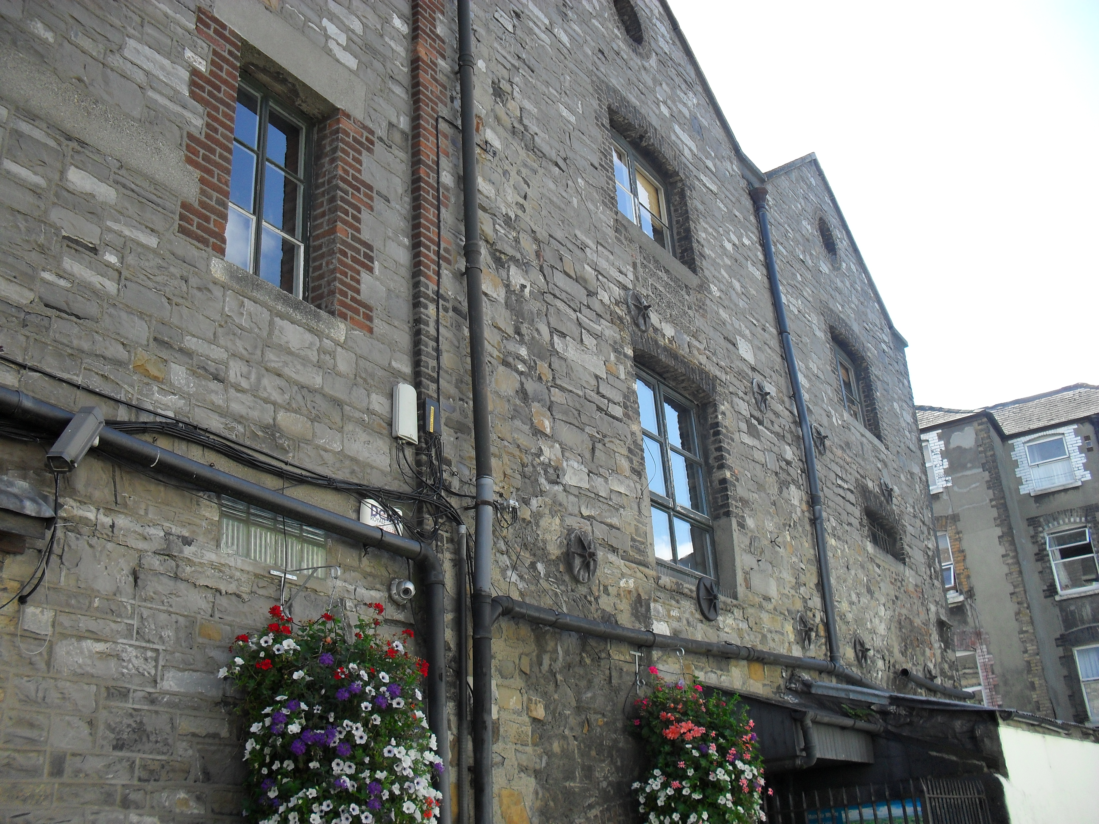 St Marys Abbey, Dublin